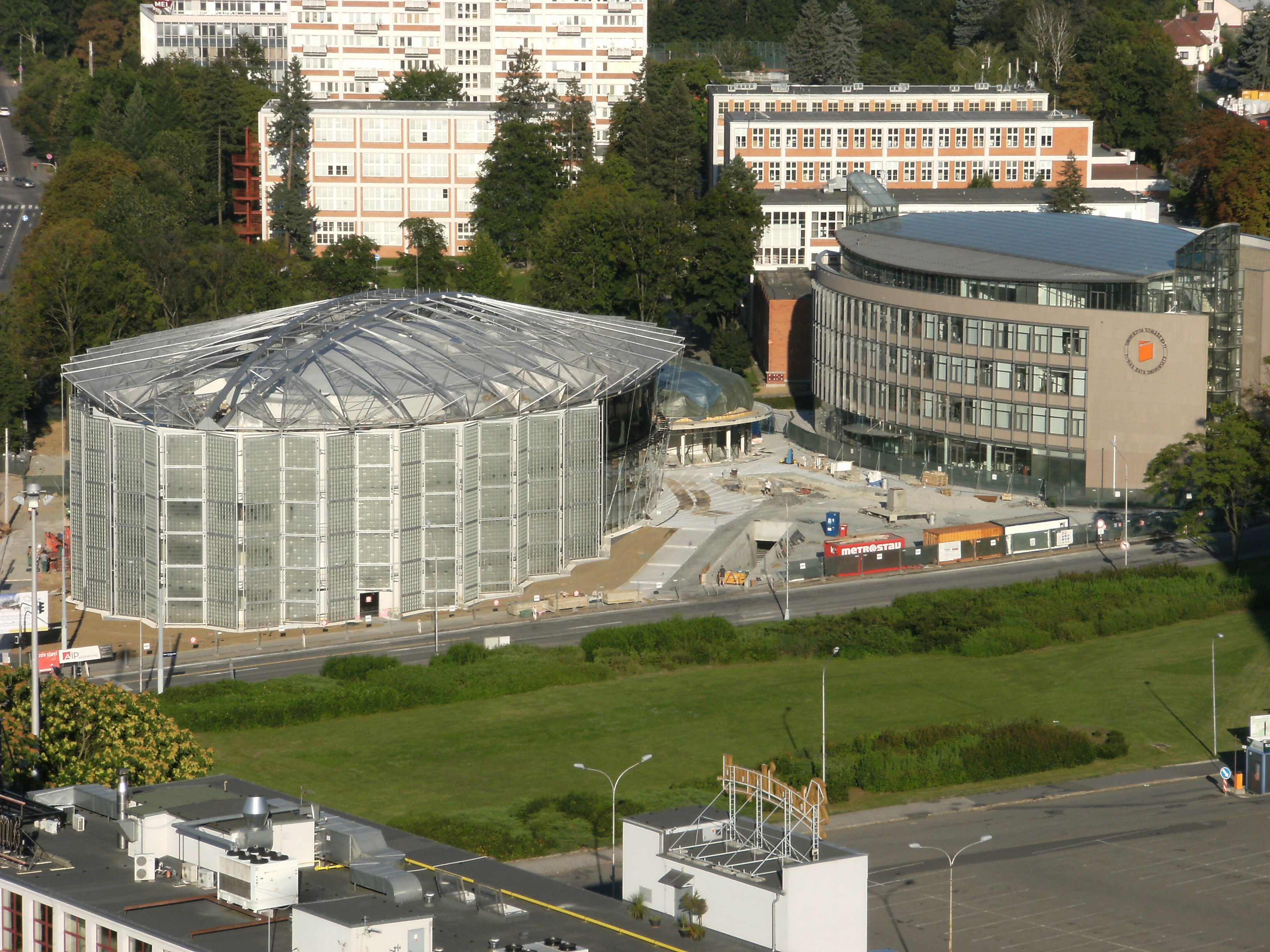 University, congress hall, Zlín.